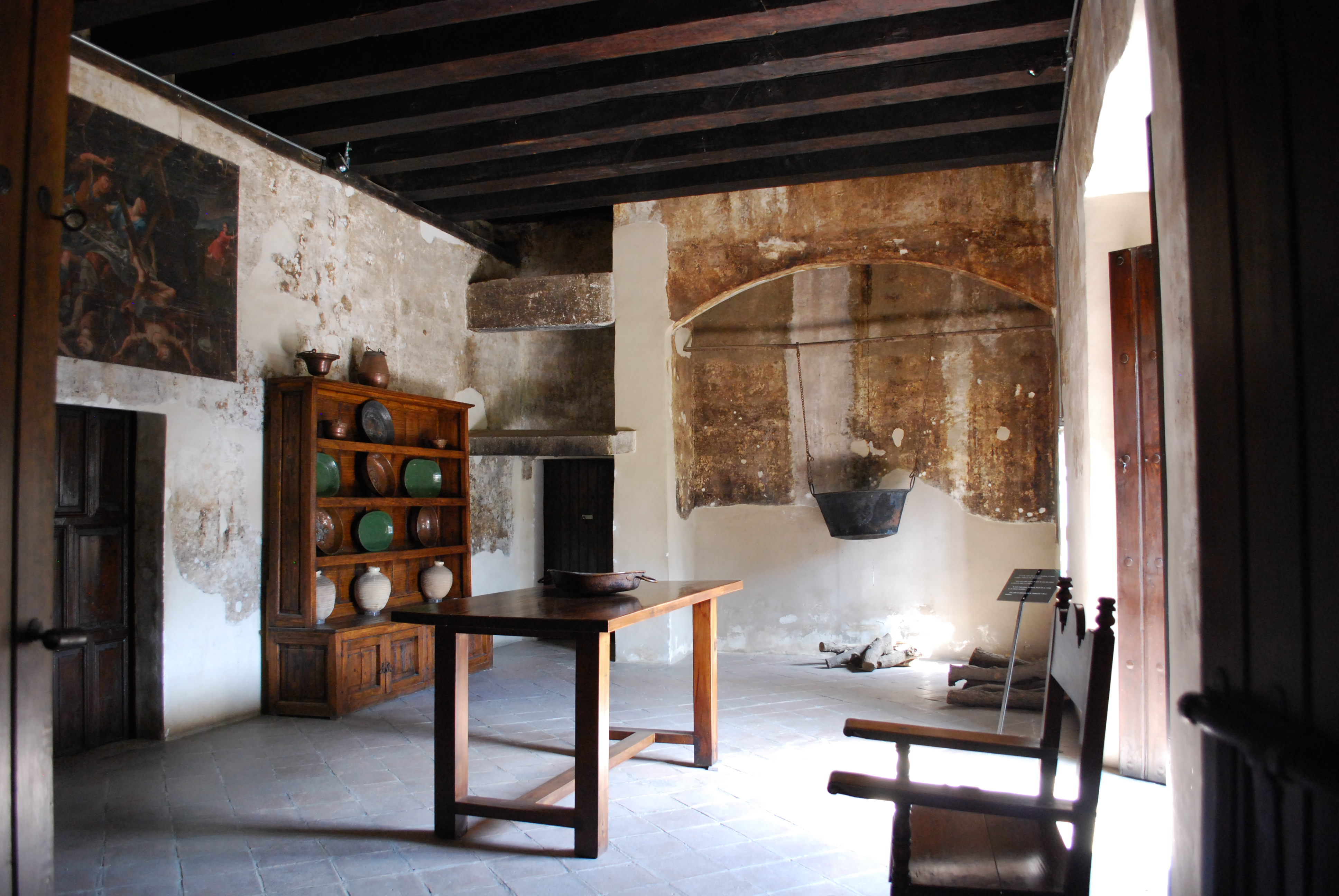 Reconstructed kitchen area of the monastery as part of the Evangelization Museum of the ex monastery of San Miguel, Huejotzingo, Puebla, Mexico